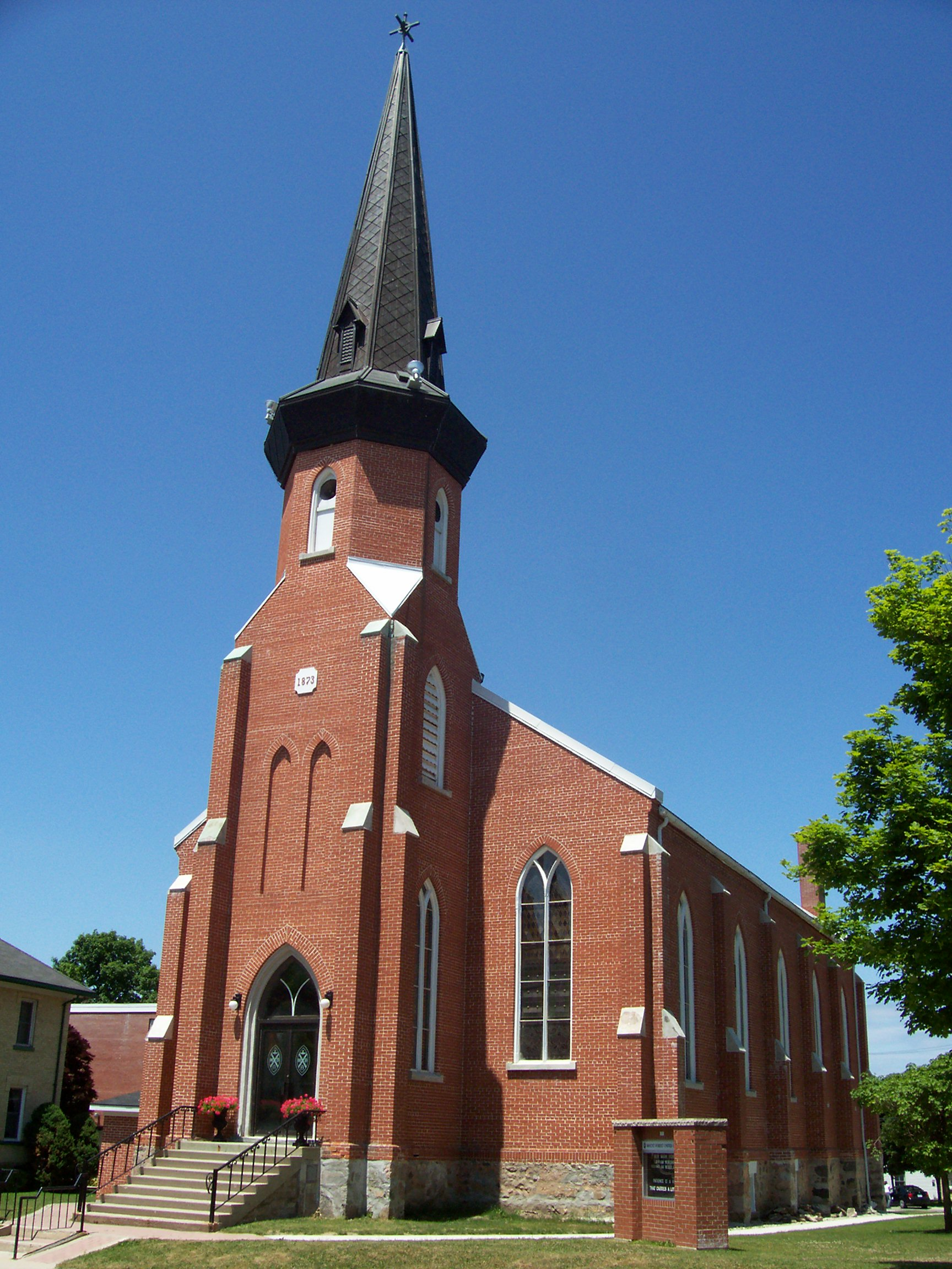 the entrance to Mount Forest United Church